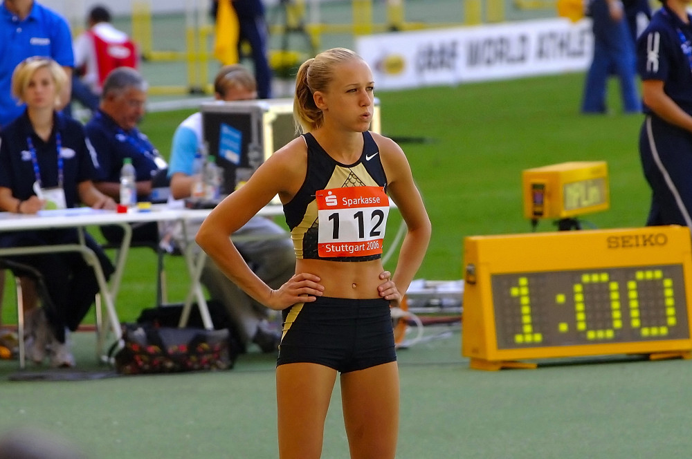 Kajsa Bergqvist at the Stuttgart meeting in 2006